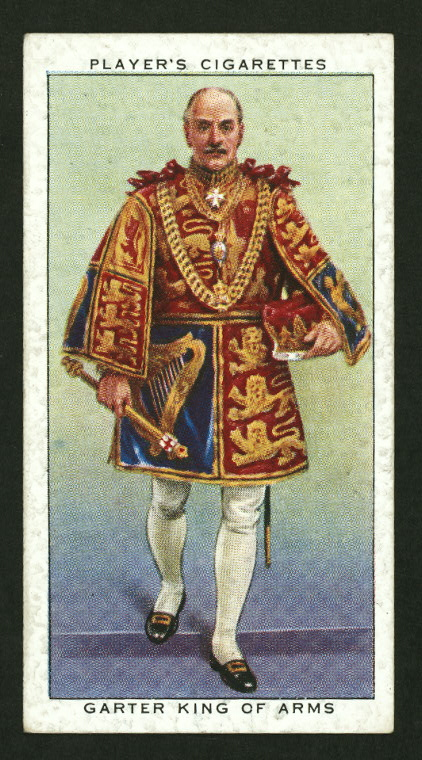 Player's cigarettes. Coronation series, ceremonial dress: Gerald Wollaston, the Garter Principal King of Arms